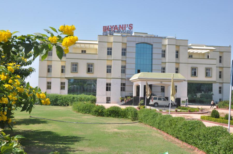 It is a Biyani engineering campus photo.